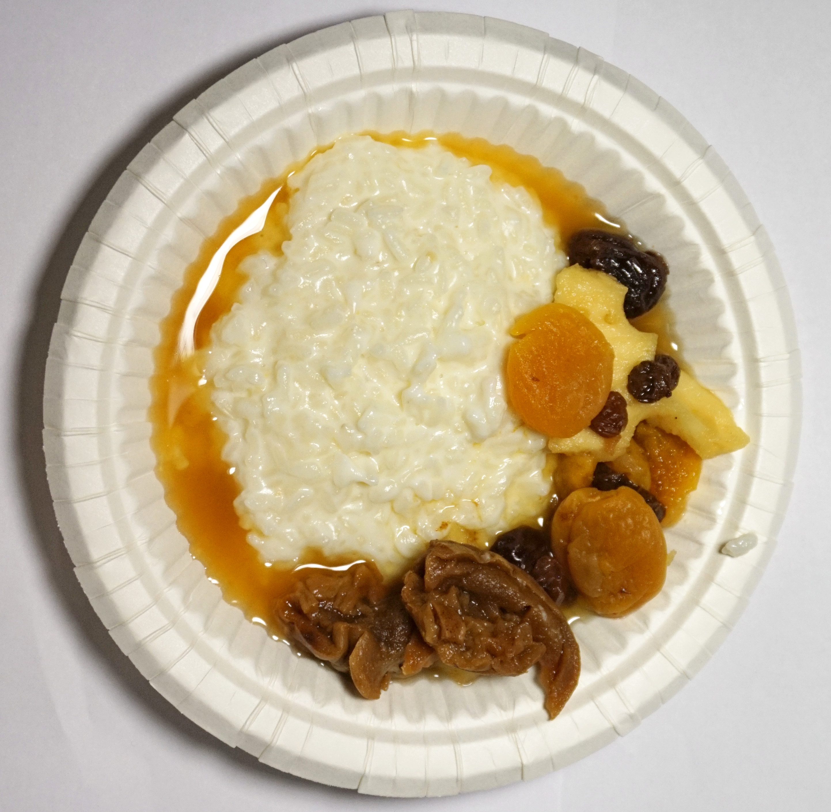 Rice porridge with mixed fruit soup on a disposable plate.